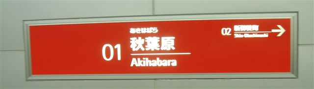 Akihabara Station